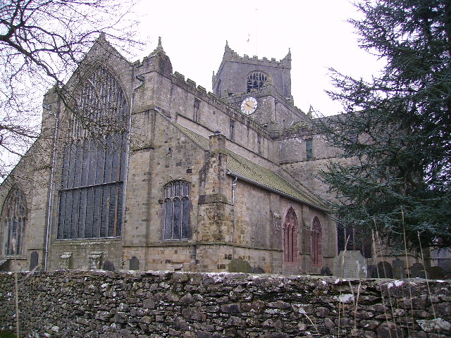 Cartmel Priory is a priory founded in 1190 by William Marshal, later 2nd Earl of Pembroke for the Augustinian Canons and dedicated to Saint Mary the Virgin and Saint Michael.